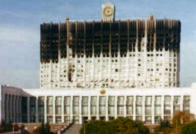 My father took this picture while we were in Moscow during the events of October 1993.